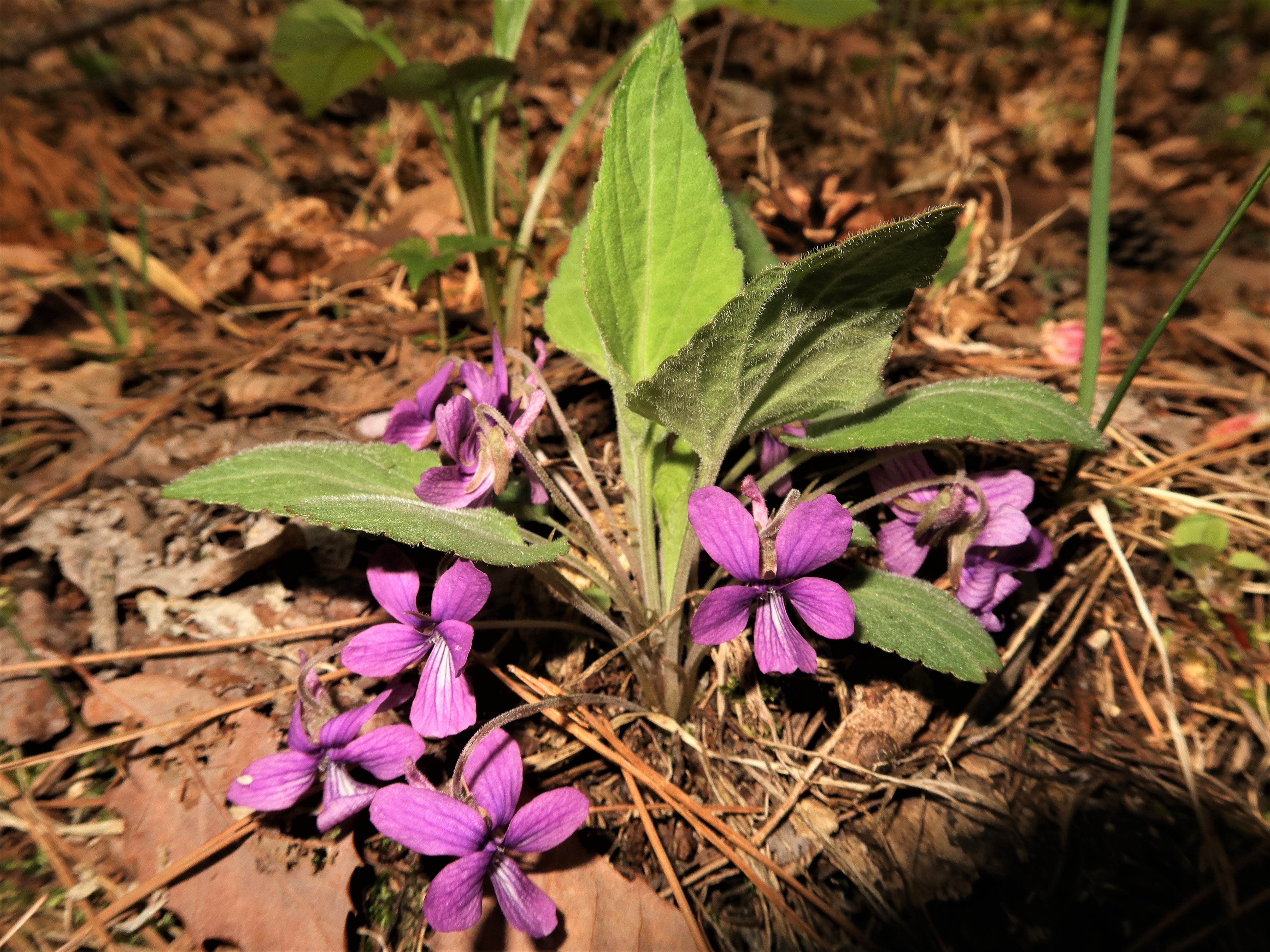 Viola phalacrocarpa, Naka-dori area, Fukushima pref., Japan